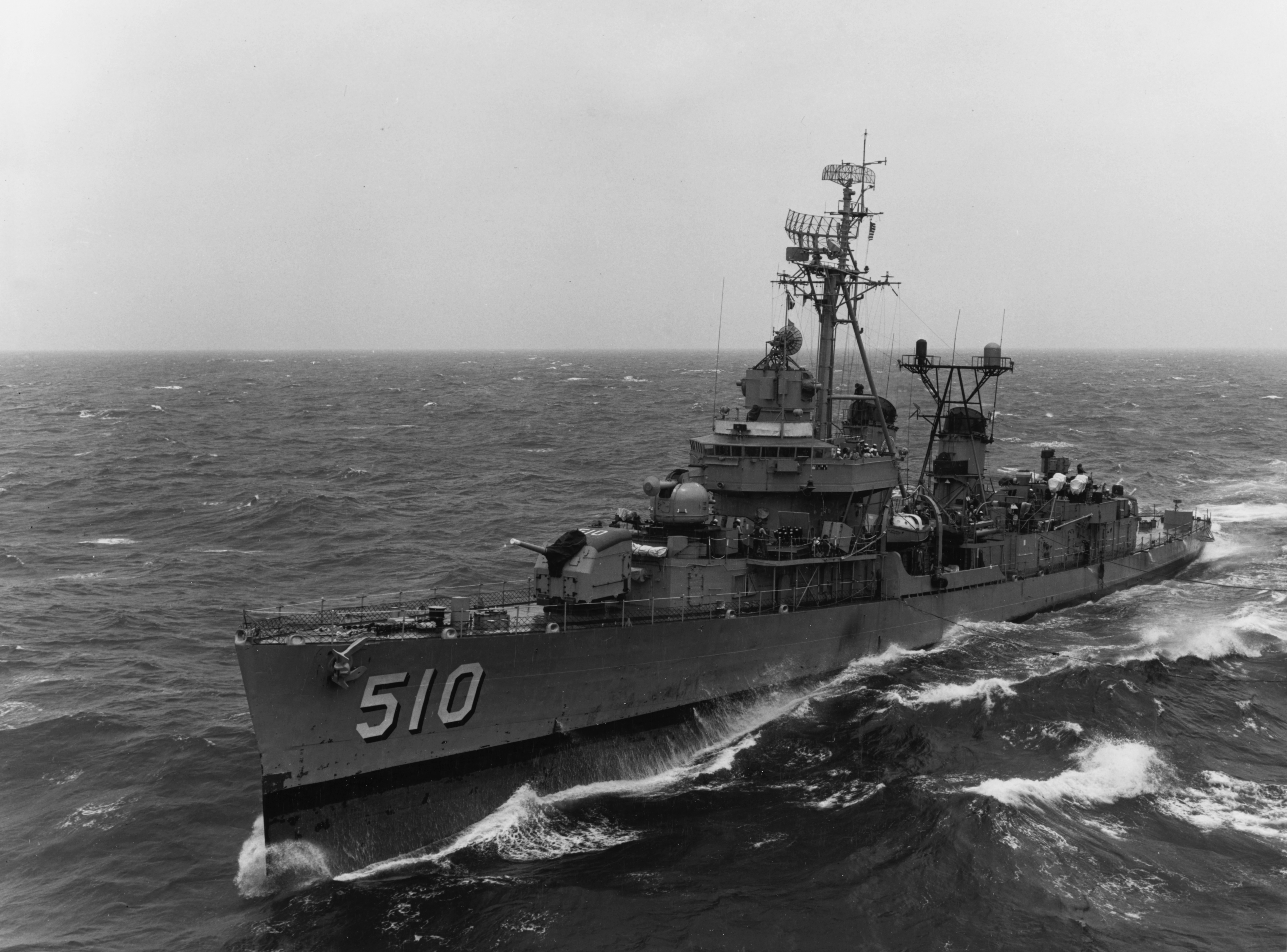 The U.S. Navy destroyer USS Eaton (DD-510) making her approach to the aircraft carrier on USS Lake Champlain (CVS-39) for refueling at sea, in September 1964.